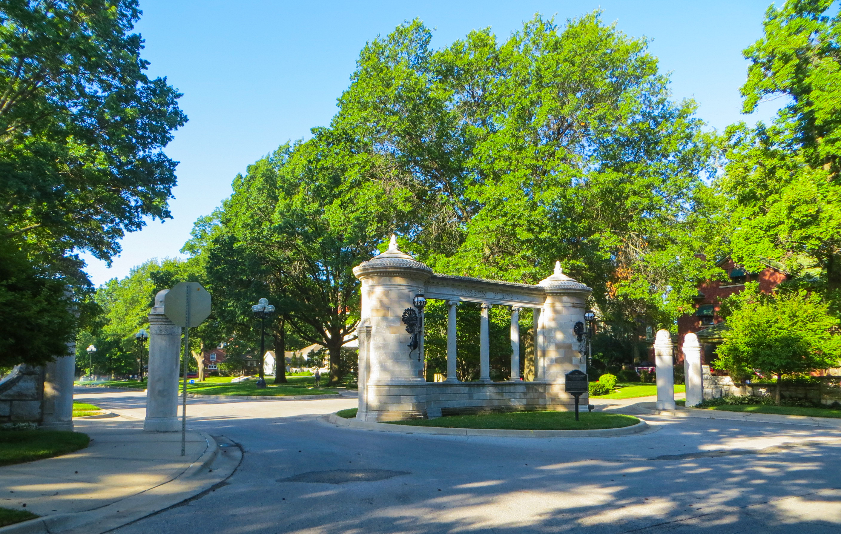 20160711 01 Hyde Park, Kansas City, Missouri